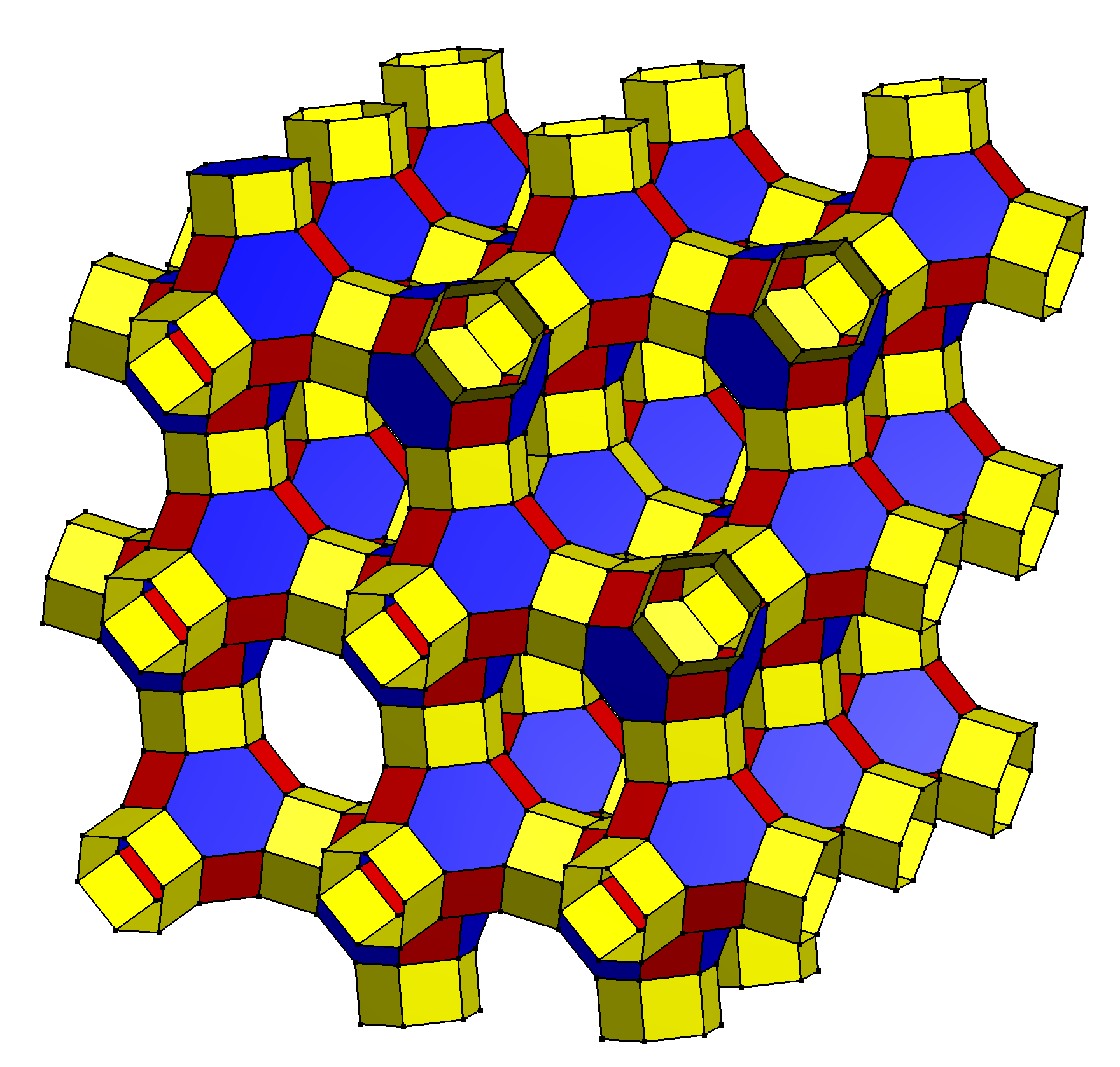 Uniform apeirohedron